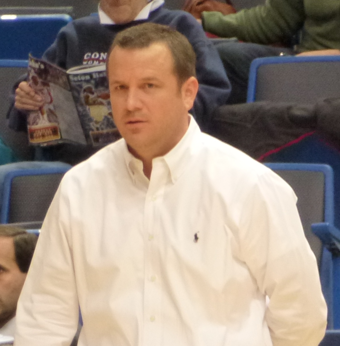 Jeff Walz, head coach of the Louisville women's basketball team. Taken at the Big East Tournament in 2012.